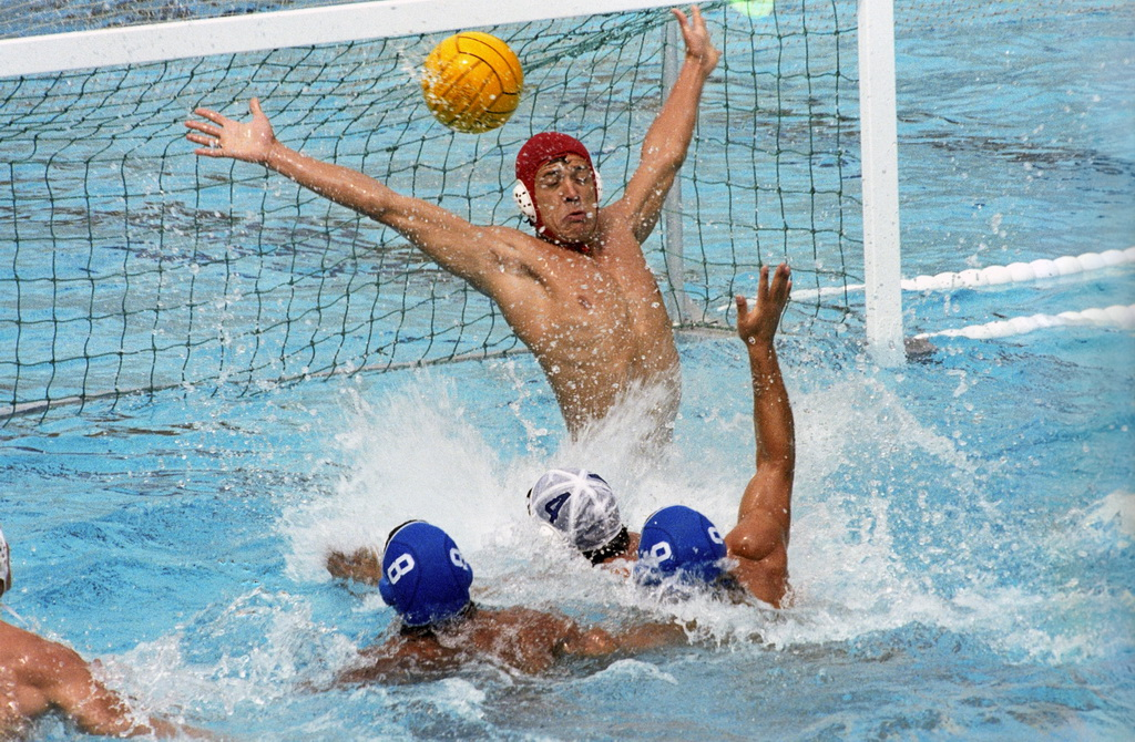 “Hungary vs Holland water polo match”. Hungary vs Holland water polo match. The XXII Olympiad. Moscow, 1980.